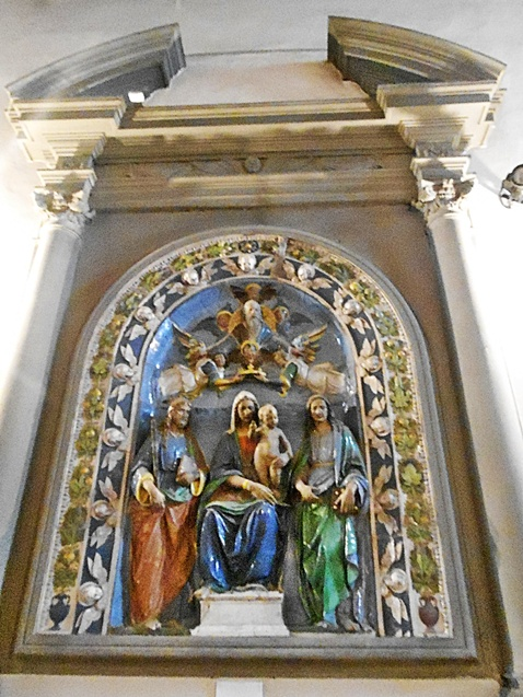 Madonna with child and saints